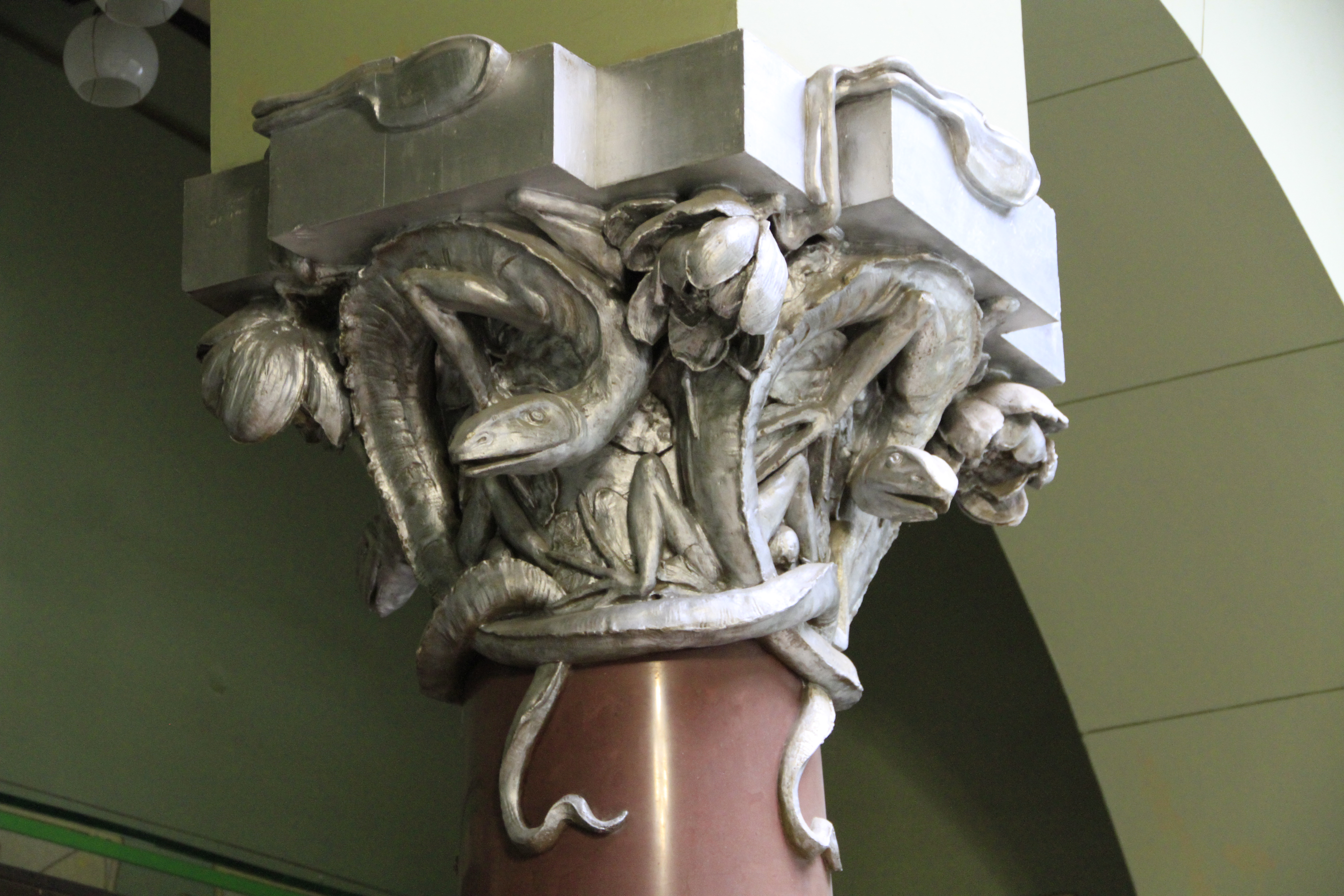 Moscow. Ryabushinsky House. Interiors. Main staircase